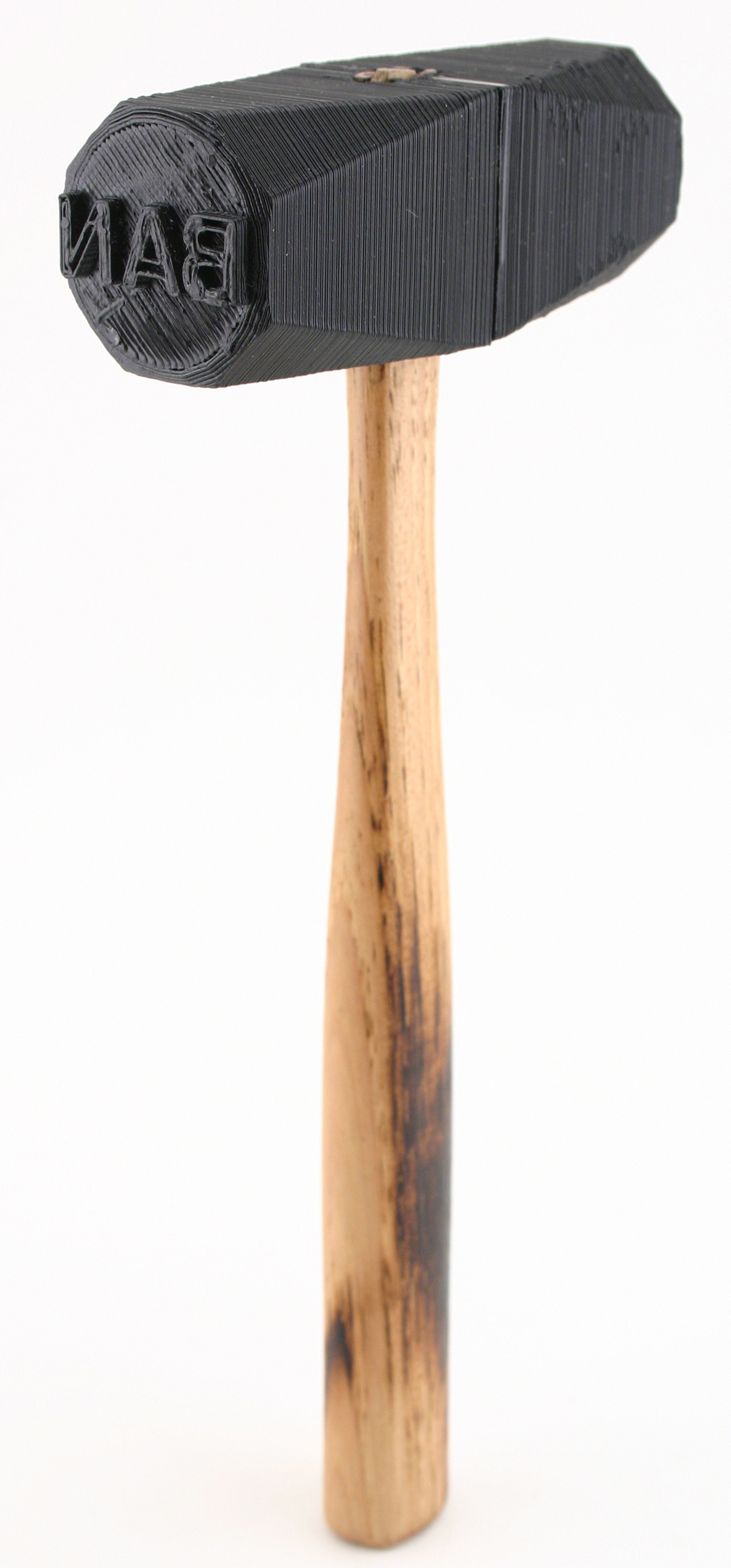 This is an image of a 3D printed Ban Hammer